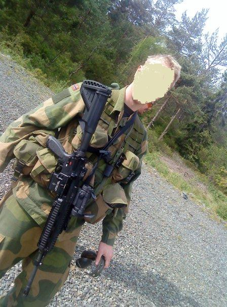 A private from the Norwegian Heimevernet (Home Guard) Innsatsstyrke (The taskforce) on exercise in Norway during june 2009. The photo shows him holding an HK416.